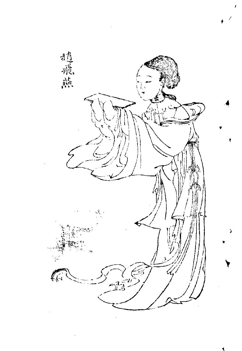 Empress Zhao Feiyan(c. 32 BC – 1 BC),ormally Empress Xiaocheng.